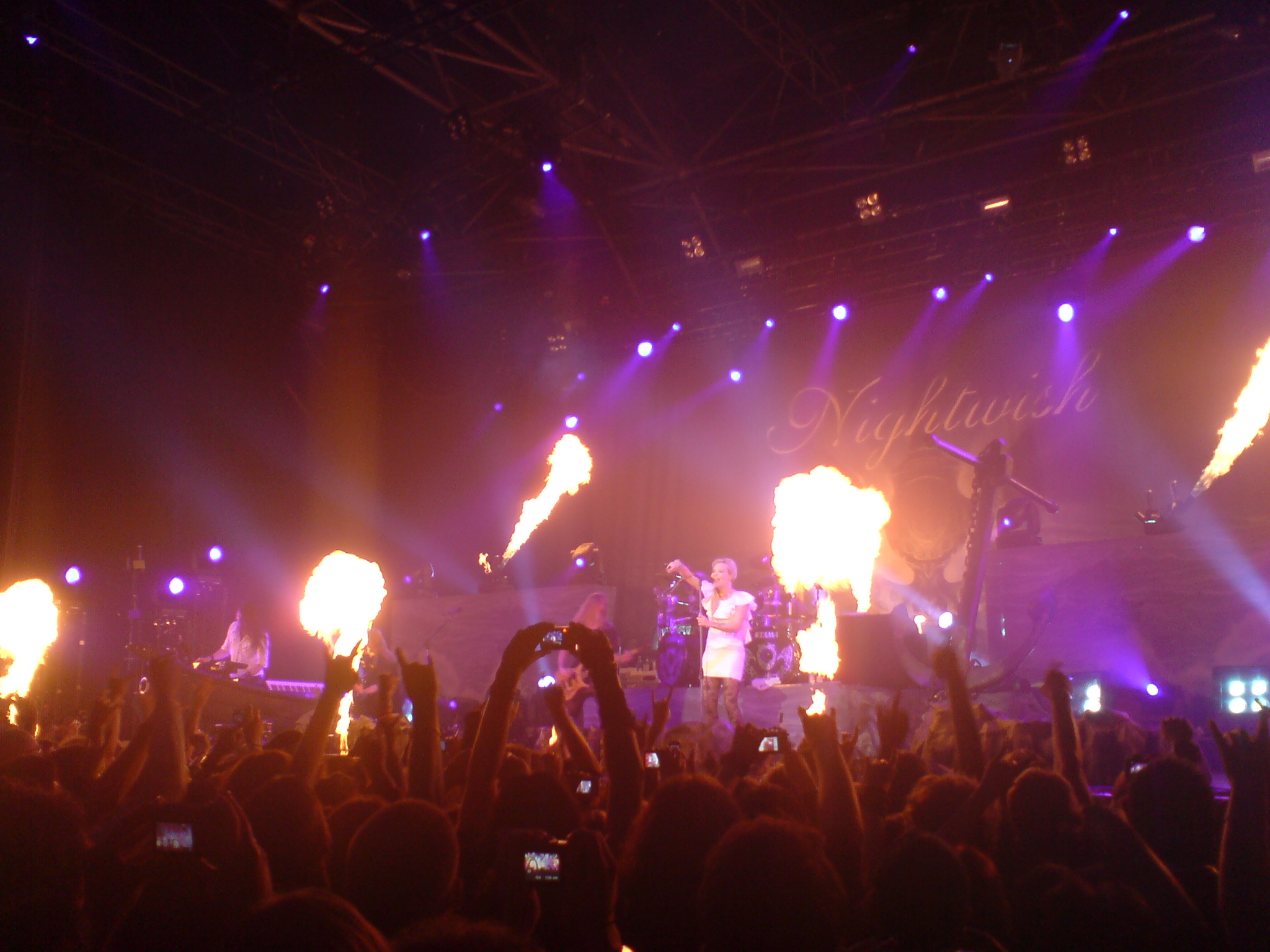 Nightwish at Paris.